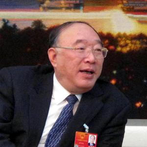 Picture of Huang Qifan